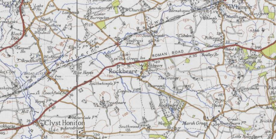 Rockbeare, Historic Map of the 20th Century